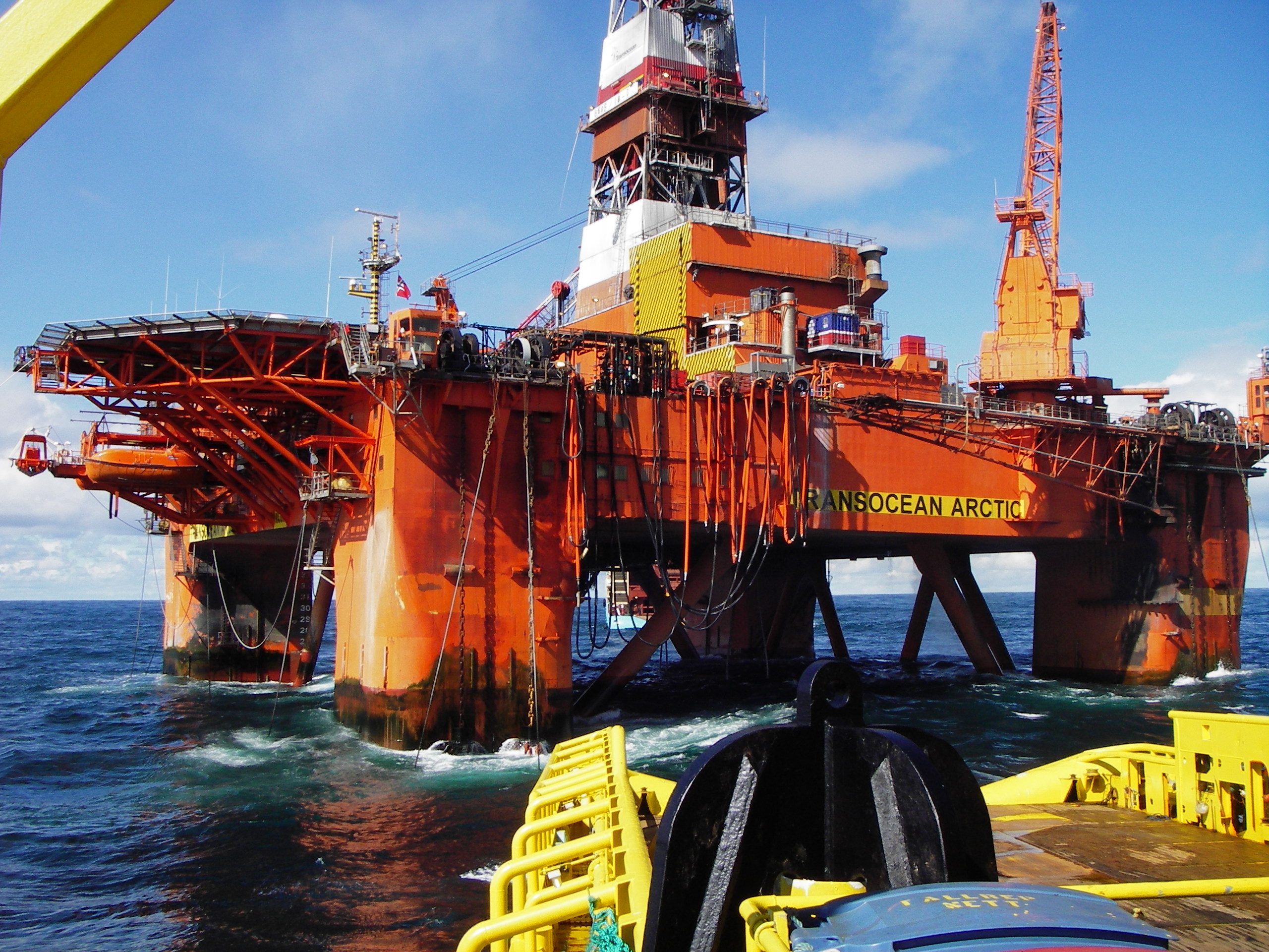 Balder Viking by Transocean Arctic